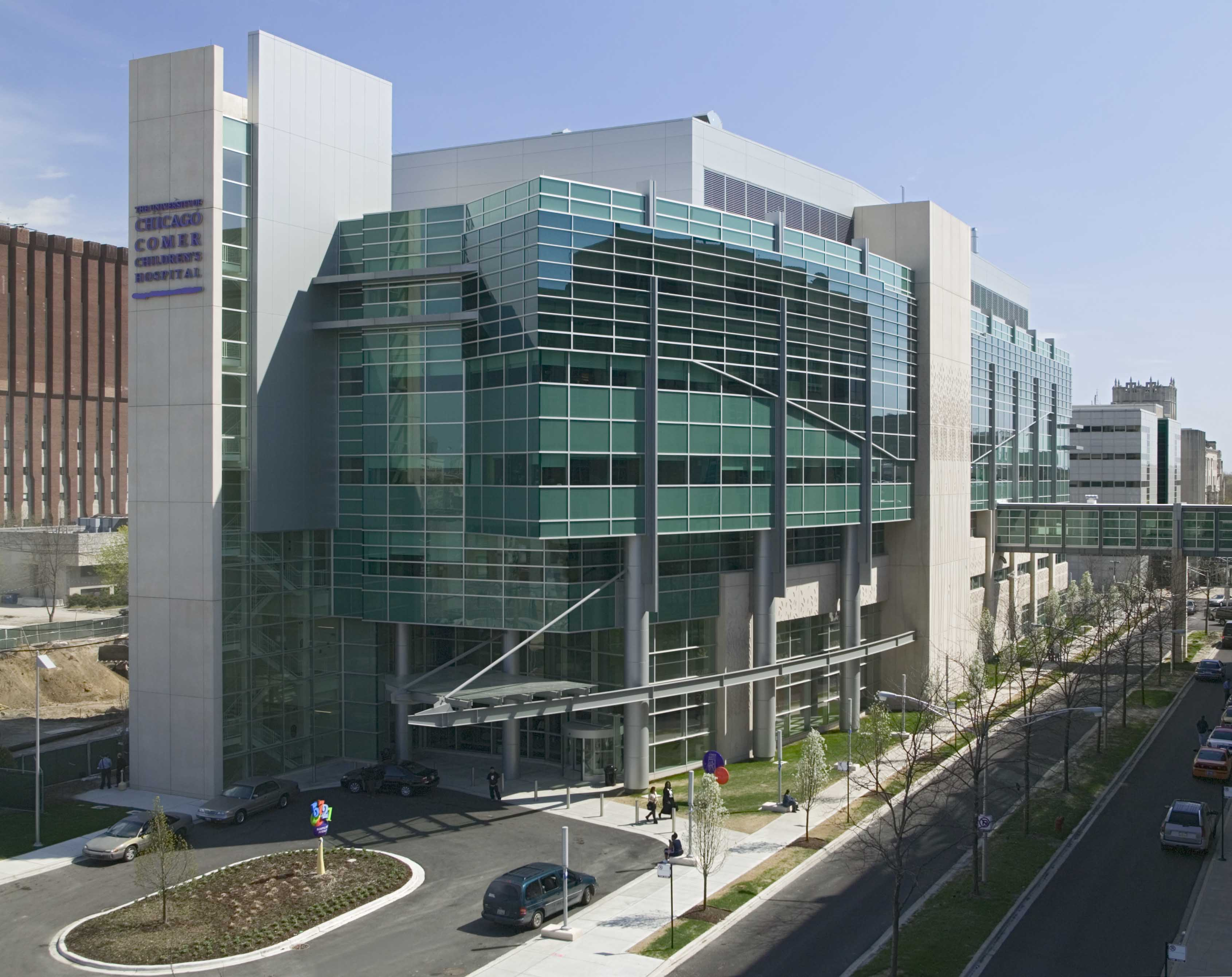 Comer